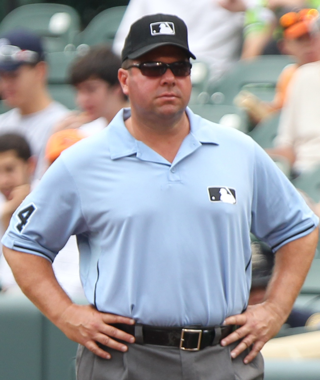 Blue Jays at Orioles September 1, 2011